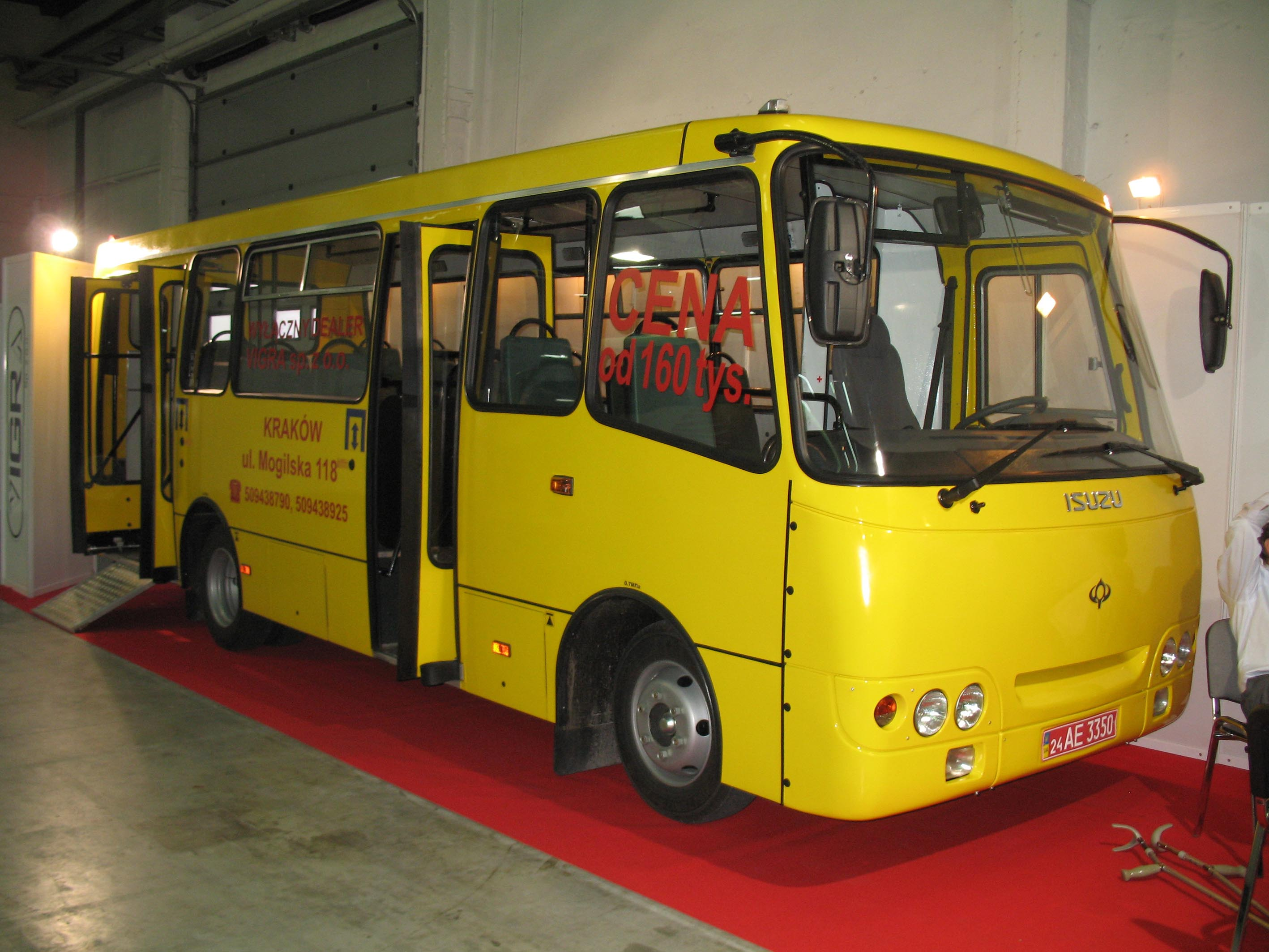 Isuzu Bogdan A092 (Богдан A092) bus (#30) in Kielce, Poland. Built 2009. Transexpo 2009. From 2009 - Elbud Jaworzno operator.